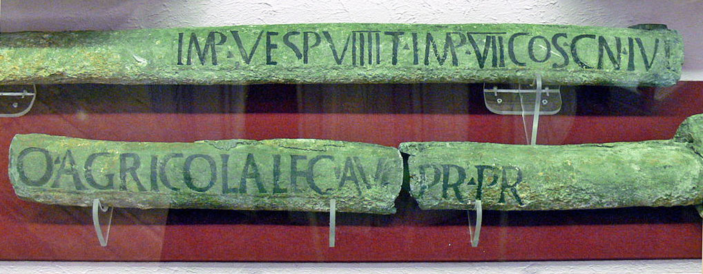 Inscriptions on roman lead pipes.